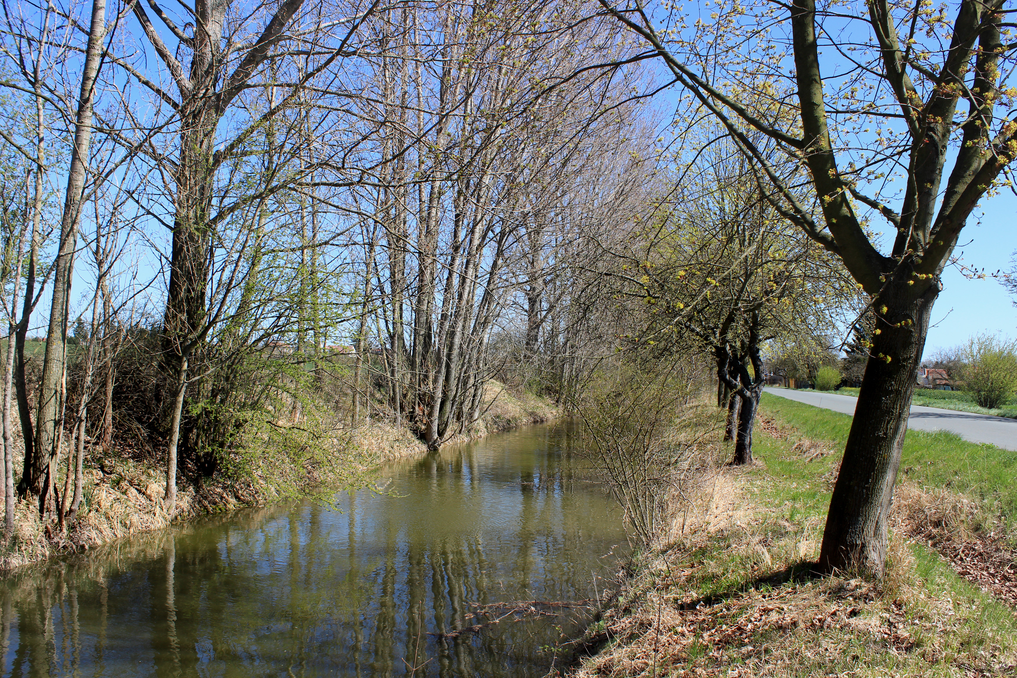 Sánský kanál by Opolánky, part of Opolany, Czech Republic.